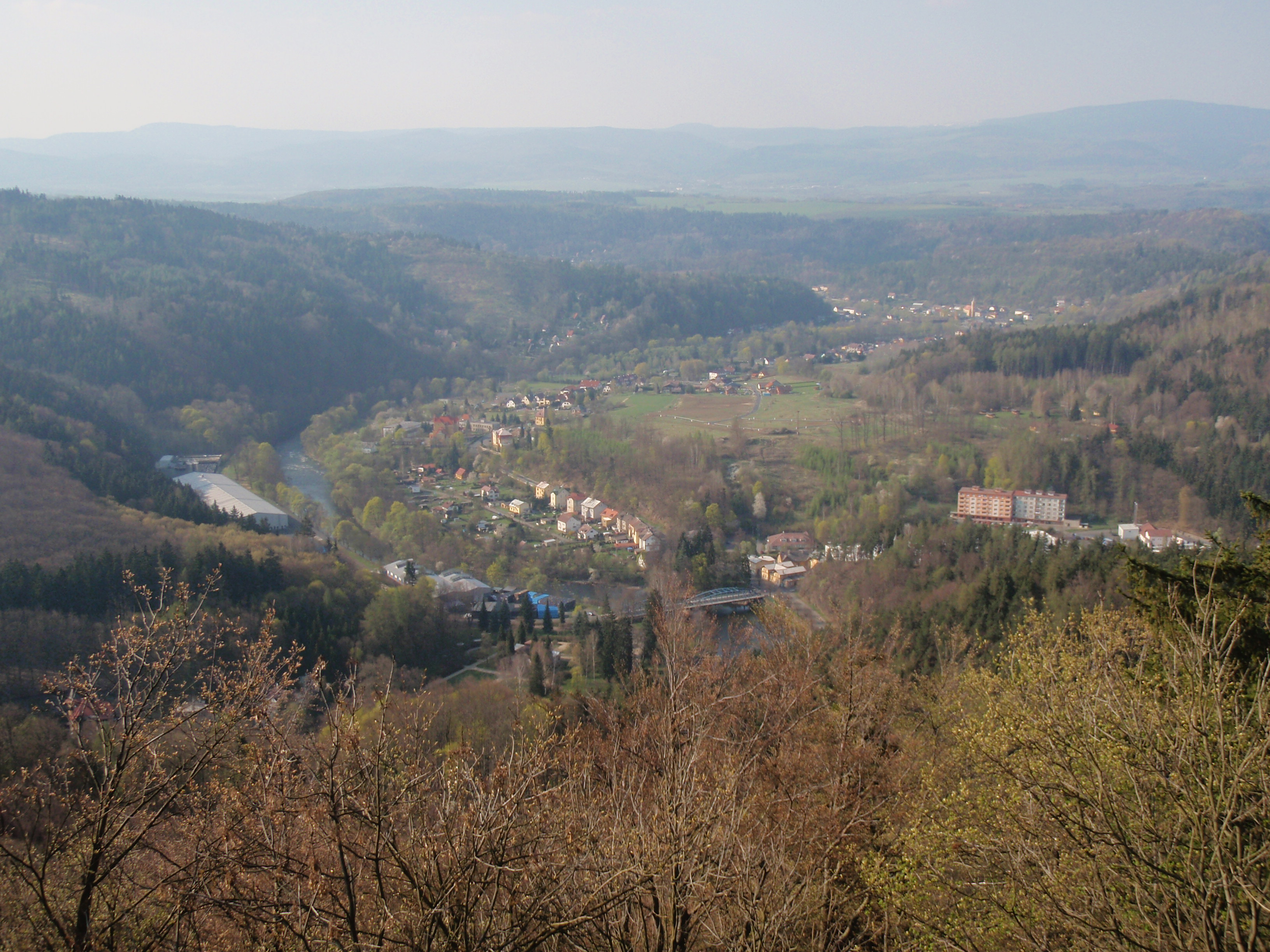 Kyselka